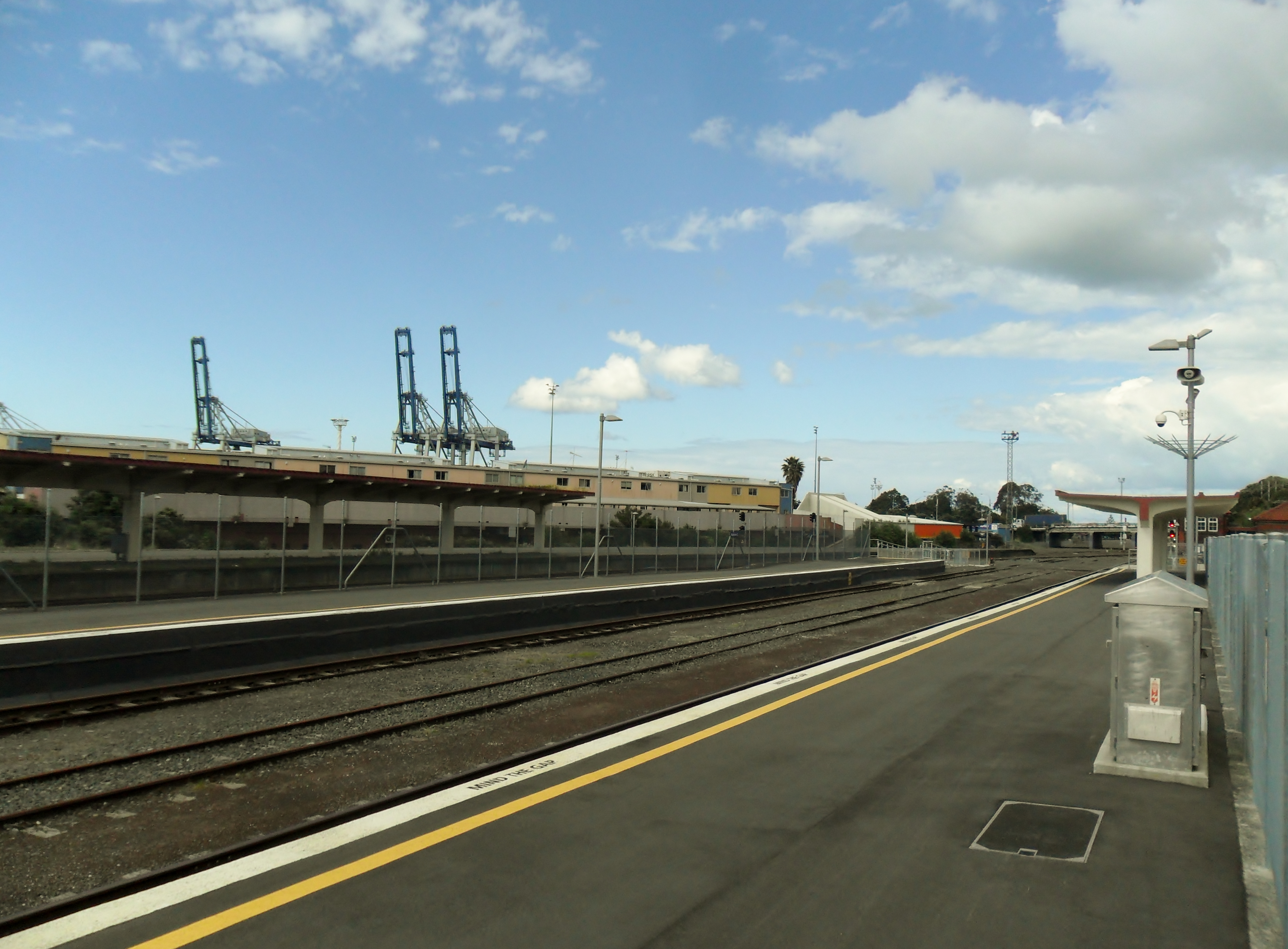 An image of the refurbished platforms at the Strand station, Auckland